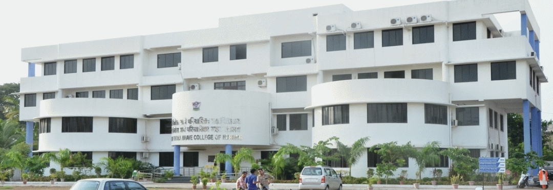 college building at VBCH for nursing